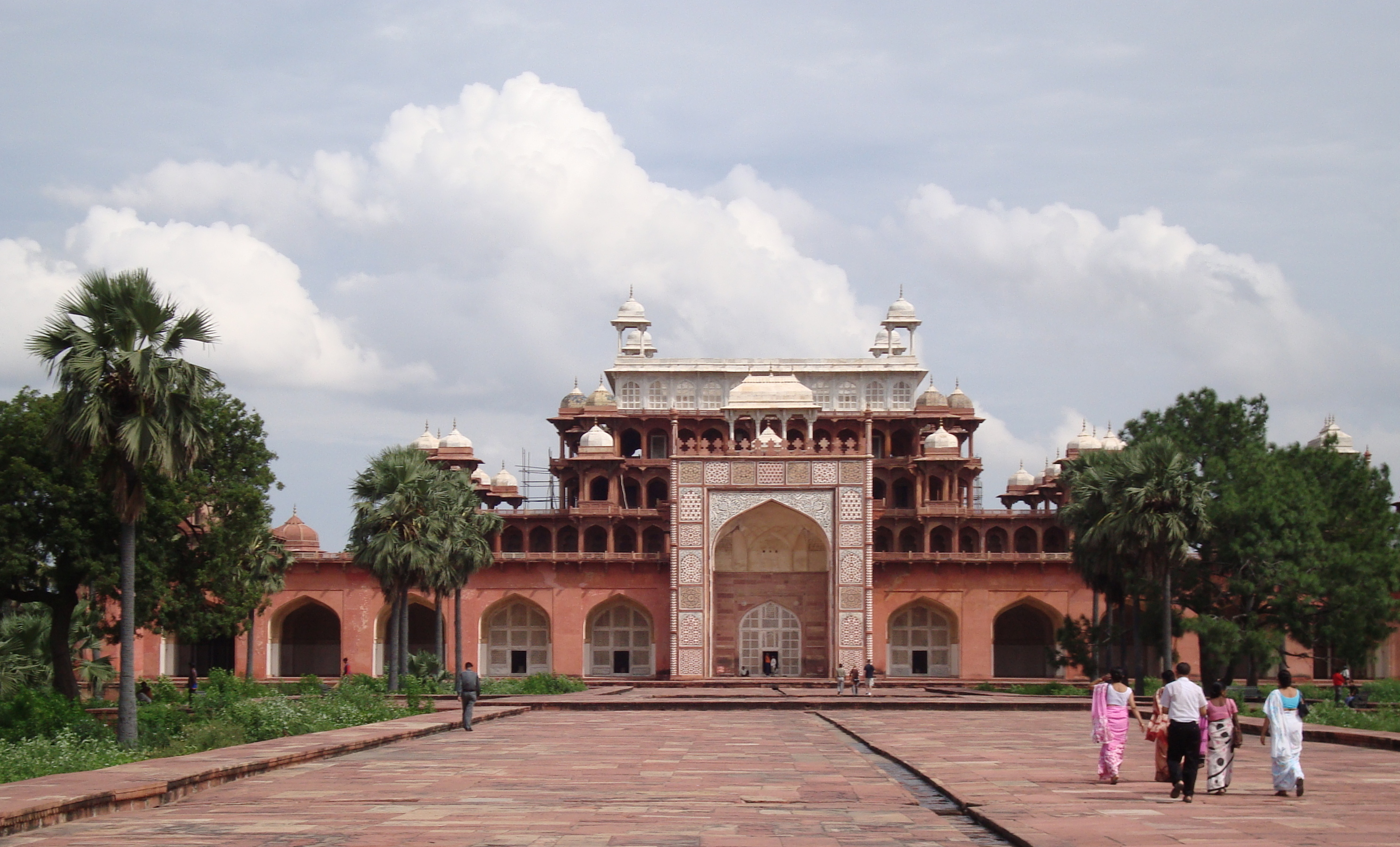 Akbar Tomb in Agra, India